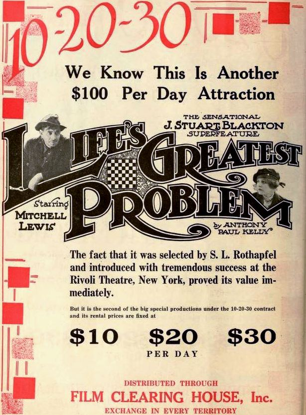 Ad for the film Life's Greatest Problem (1918) with Mitchell Lewis and Rubye De Remer, on page 152 of the January 11, 1919 Moving Picture World.